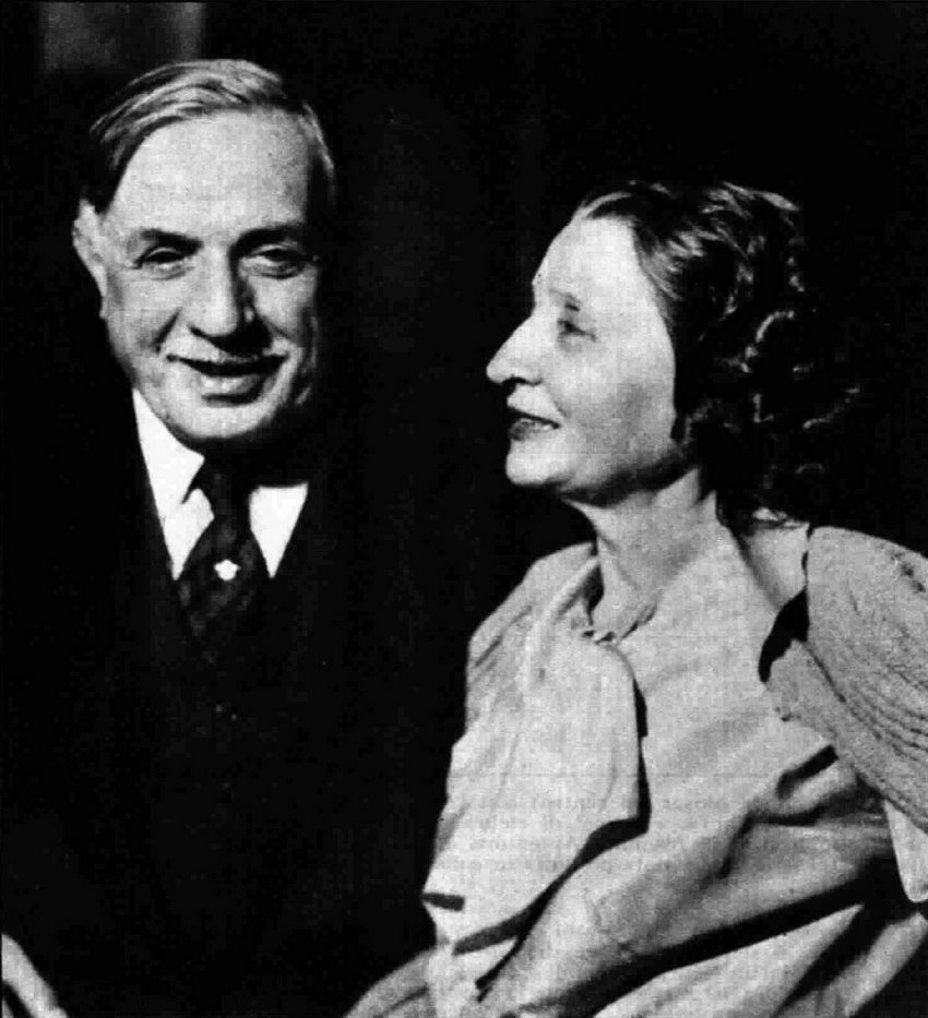 Italian playwright Renato Simoni and actress Emma Gramatica, 1930 ca.